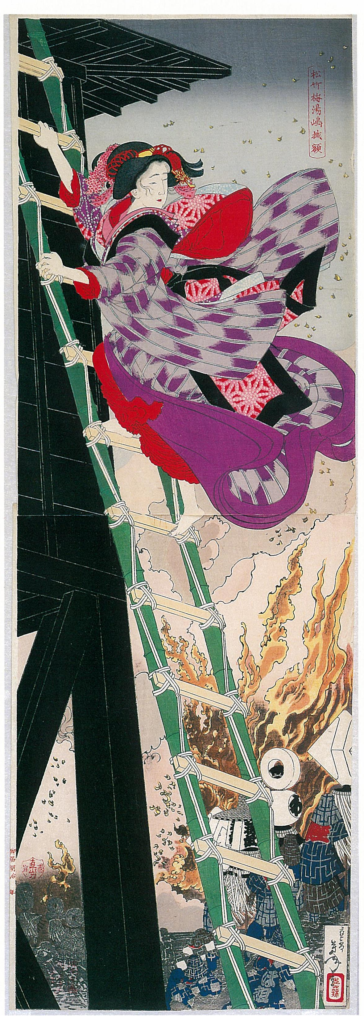 Tukioka Yositosi（1839-1892） Shouchikubai Yusima Kakegaku(Yaoya-Osichi）